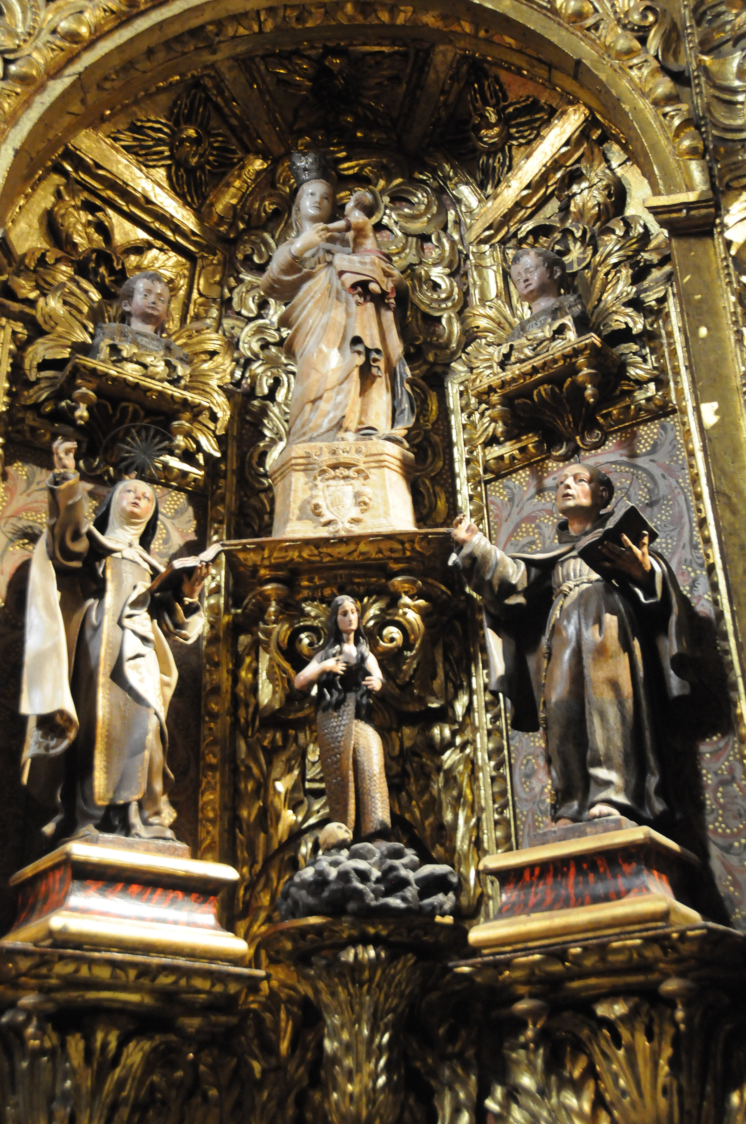 Ourense Cathedral (Catedral de Ourense or Catedral do San Martiño) is a cathedral in Ourense, Galicia, Spain.